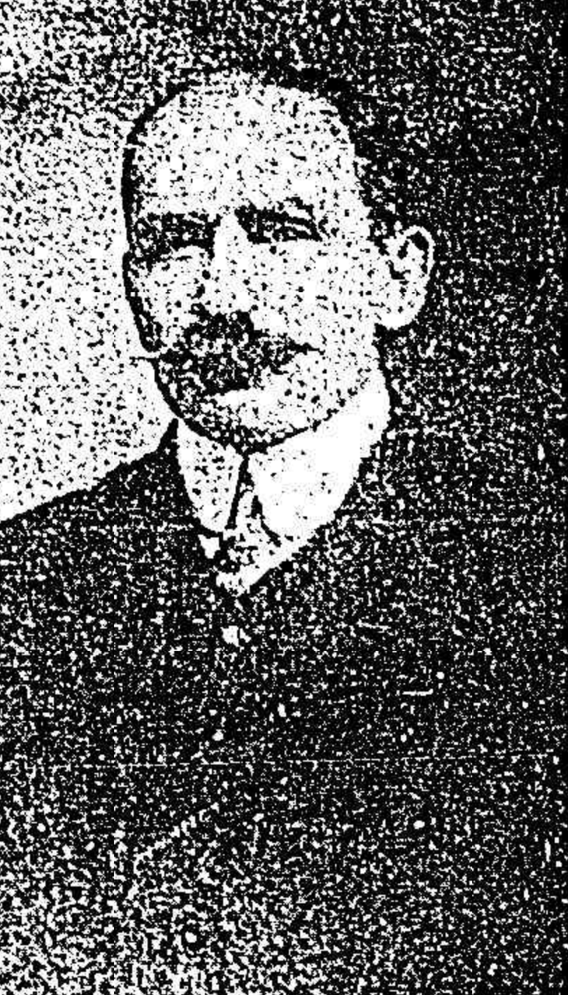 Portrait of Australian rules football player and administrator, Con Hickey.